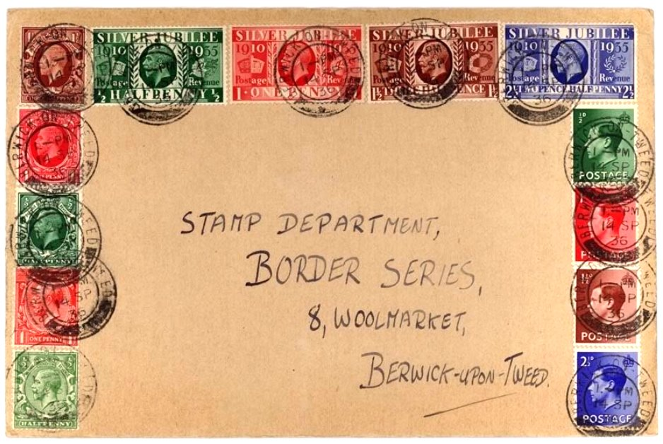 British Berwick on Tweed philatelic mail 1936.